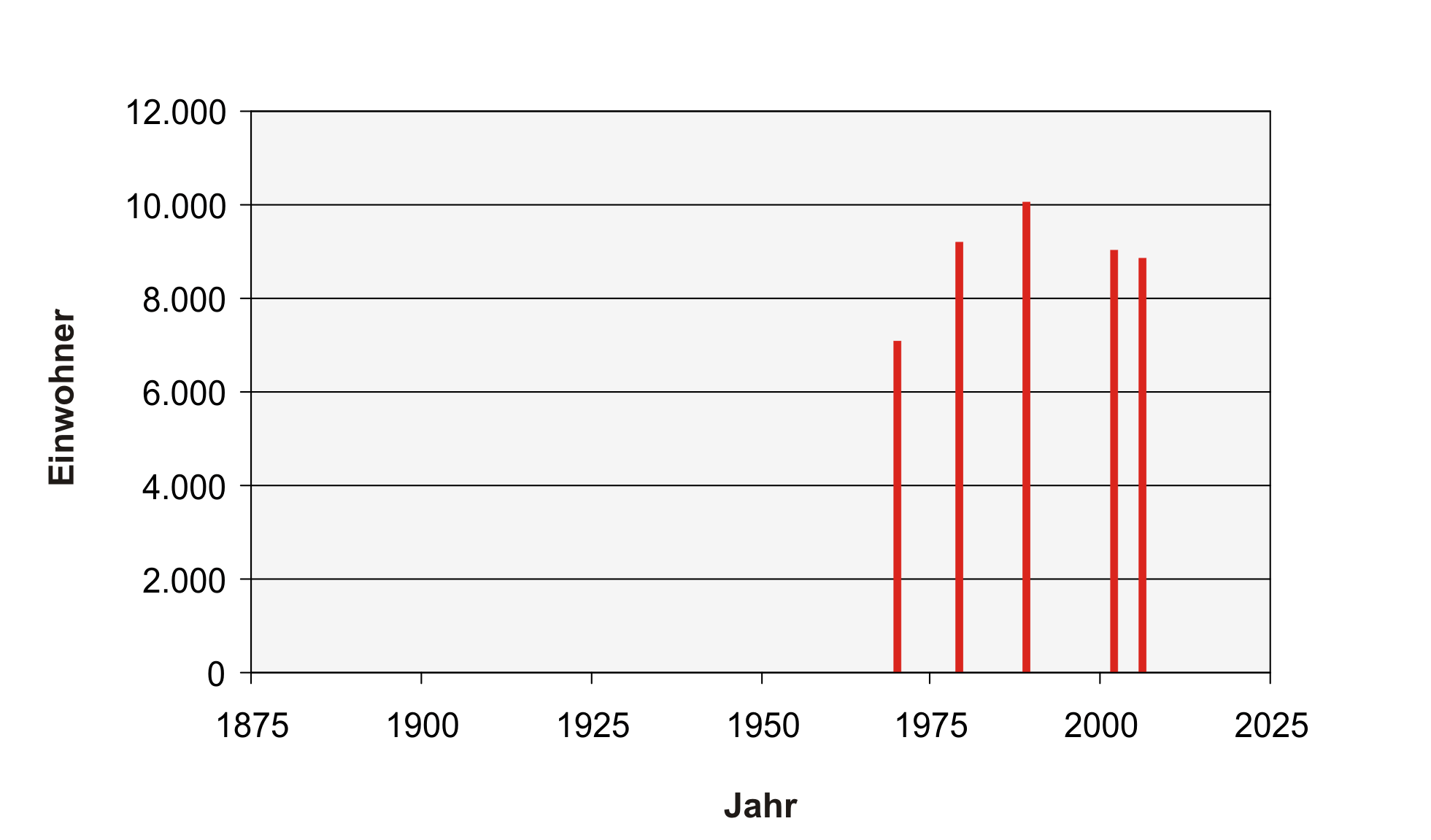 Description = Tscherwonosawodske Population Source = own work, Skluesener Date = 09.12.2006 Author = Skluesener